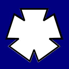 Union Army, XXII Corps, 2nd Division Badge